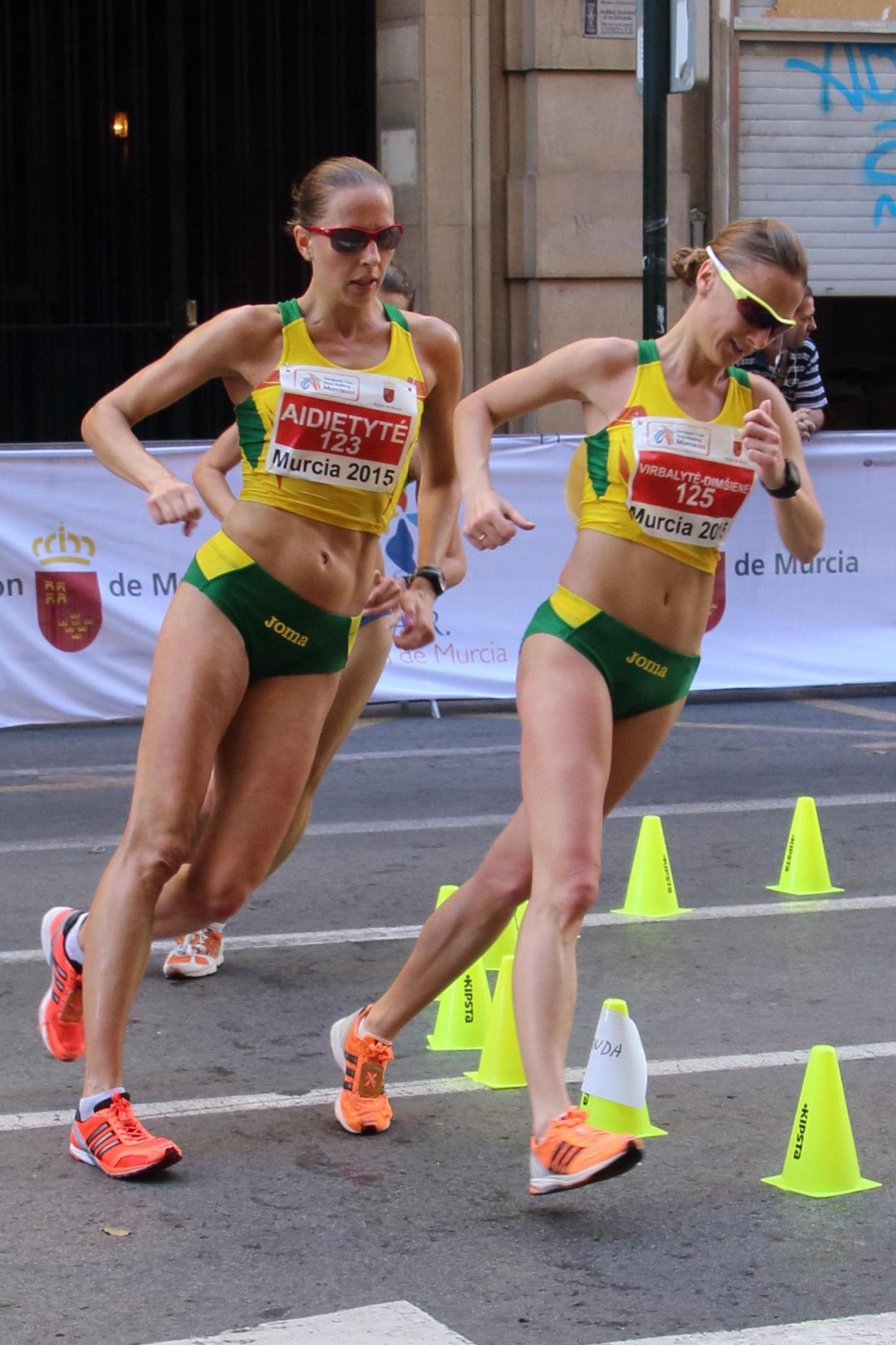 Neringa Aidietytė and Brigita Virbalyté, lithuanian race walkers in the European Cup Race Walking 2015 (Murcia, Spain).